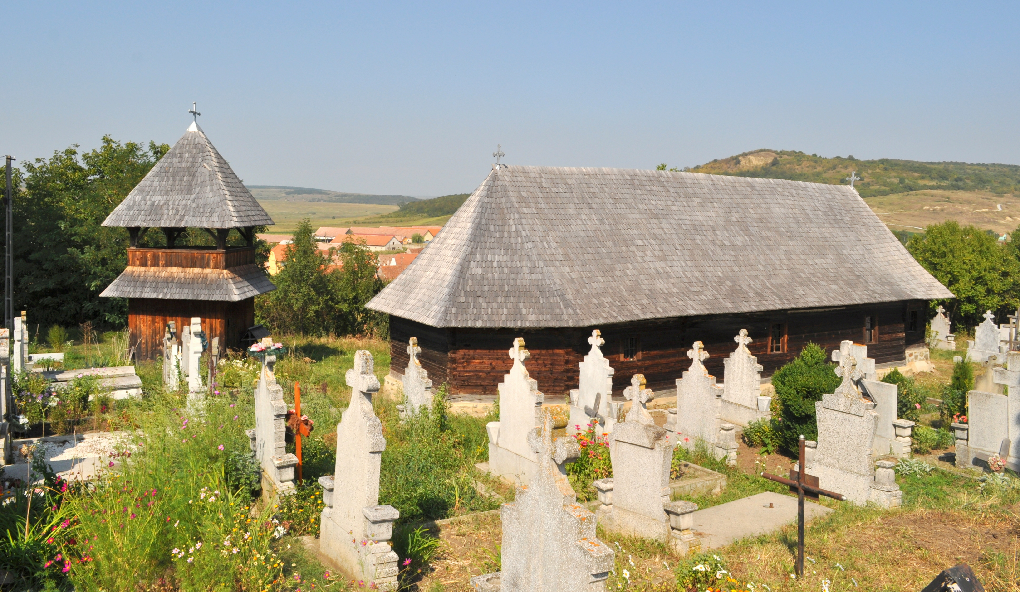 Wooden church in Apoldu de Jos, Sibiu county